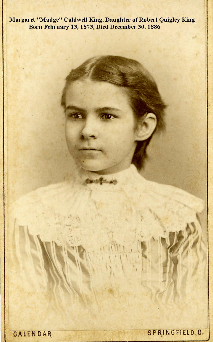 More than 100 year old photo